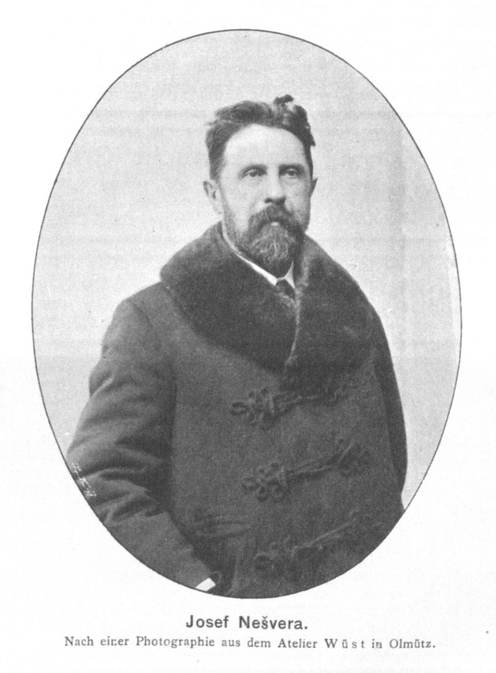 Portrait of Josef Nešvera (1842-1914), Czech composer mainly of church music.